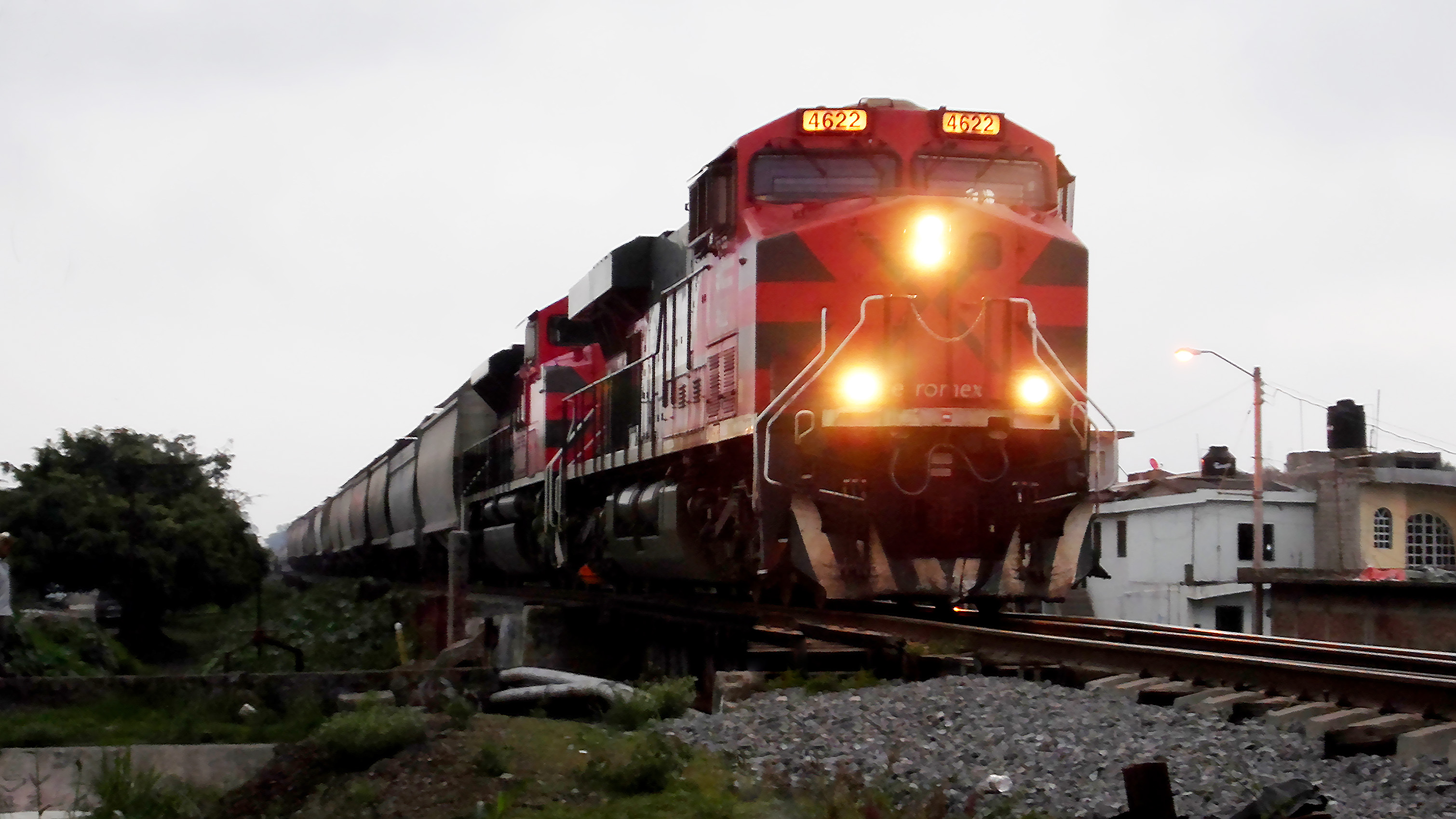 A couple of Ferromex owned ES44ACe pulls hard uphill at Tepic yard.